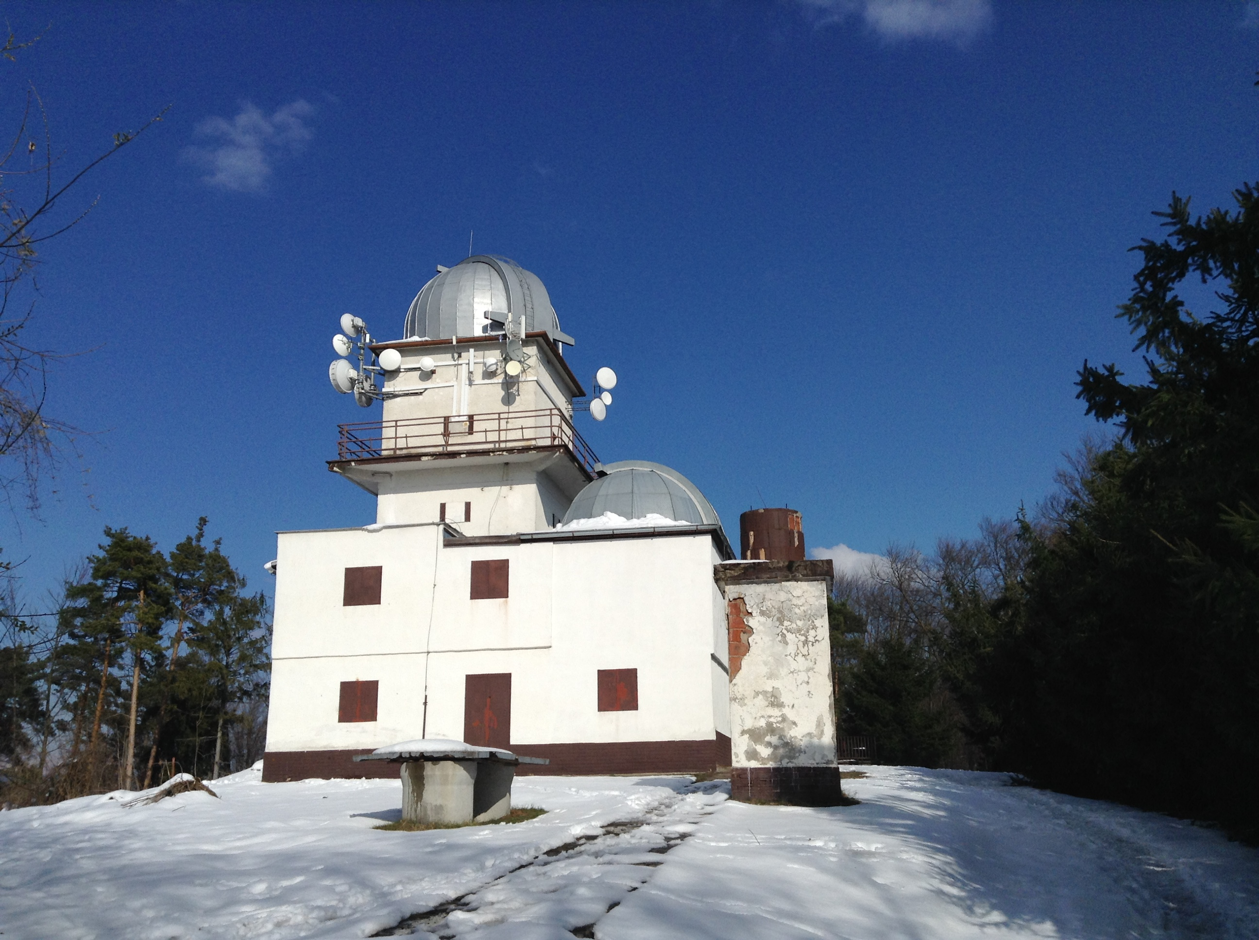 Observatory in Banská Bystrica.